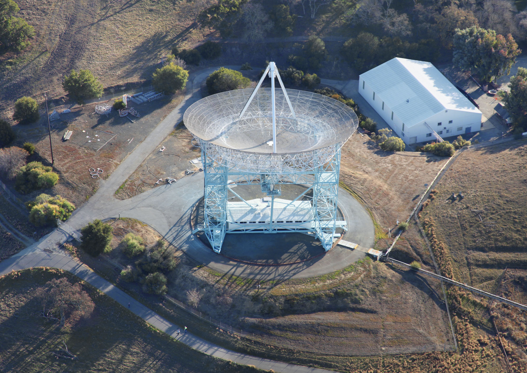 "The Stanford Dish" - radiotelesope in the hills behind Stanford University. The 150-foot-diameter (46 m) dish is not just a listening device however, it is used to communicate with satellites and spacecraft, including to each of the Voyager craft that NASA has dispatched into the outer reaches of the solar system